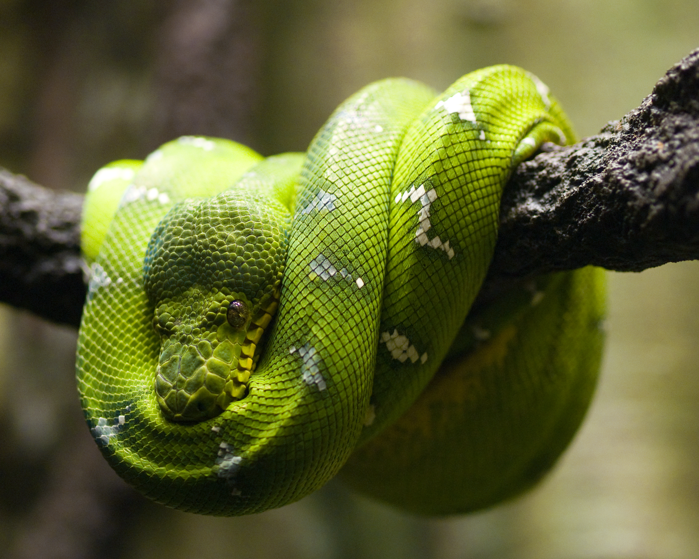 Corallus caninus, the emerald tree boa. Shot at Clyde Peeling's Reptiland in Allenwood, Pennsylvania